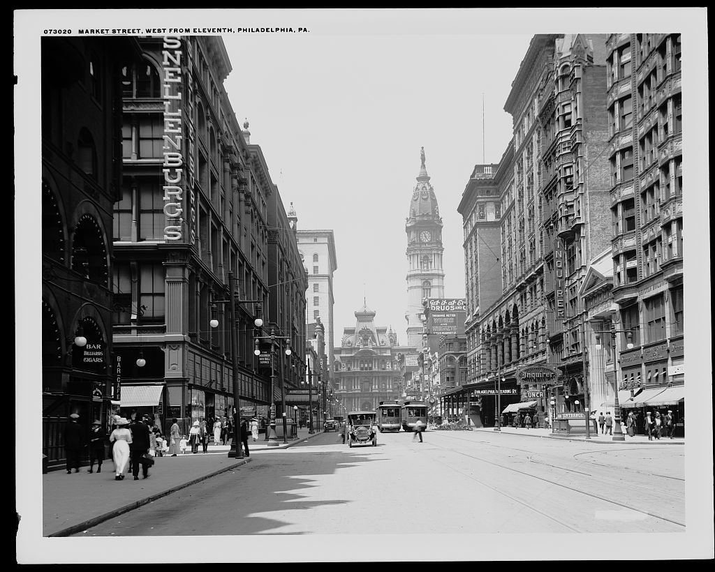 "Market Street, west from 11th, Philadelphia, Pa."